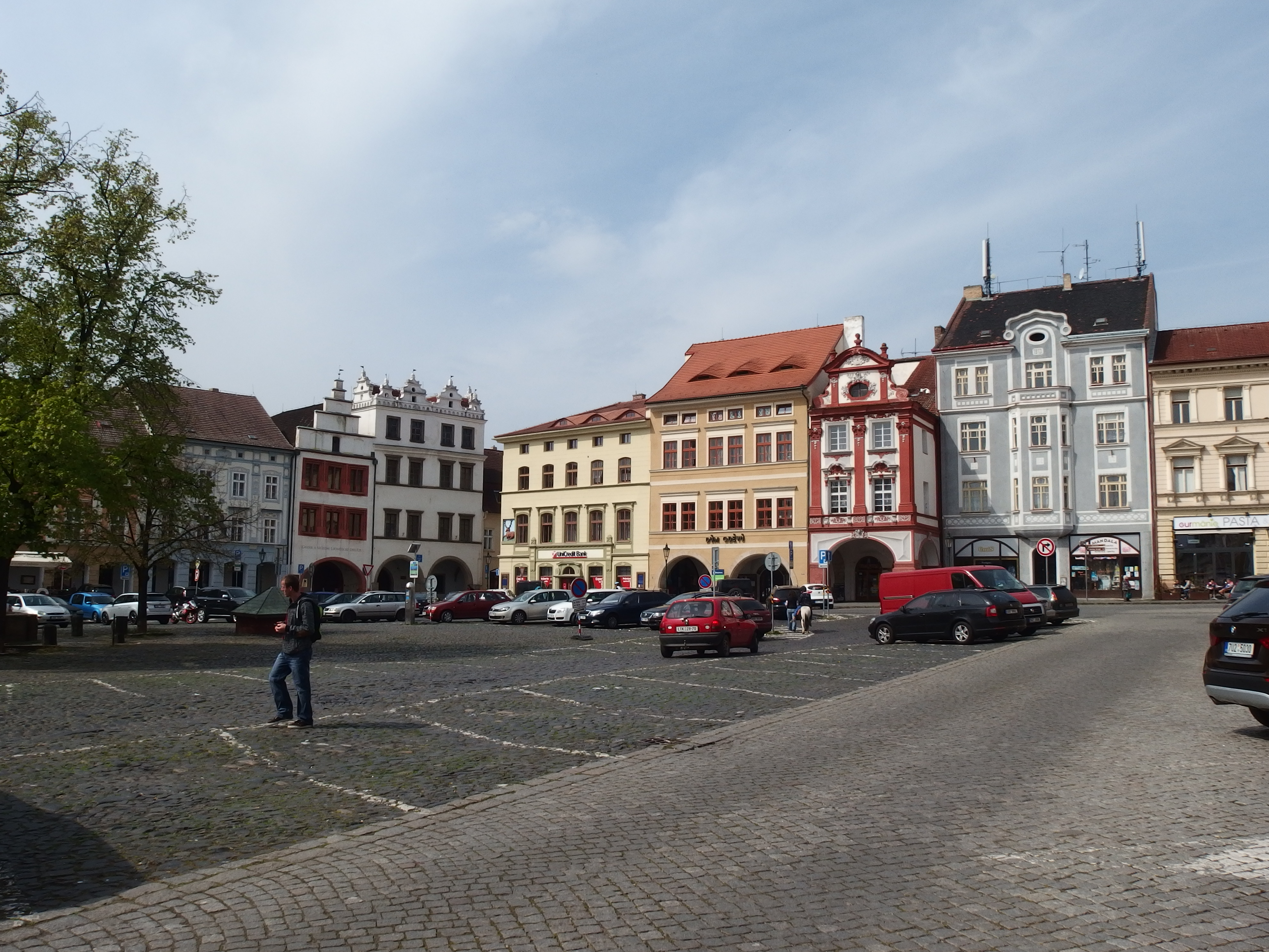 Litoměřice, Czech Republic. Mírové náměstí square.